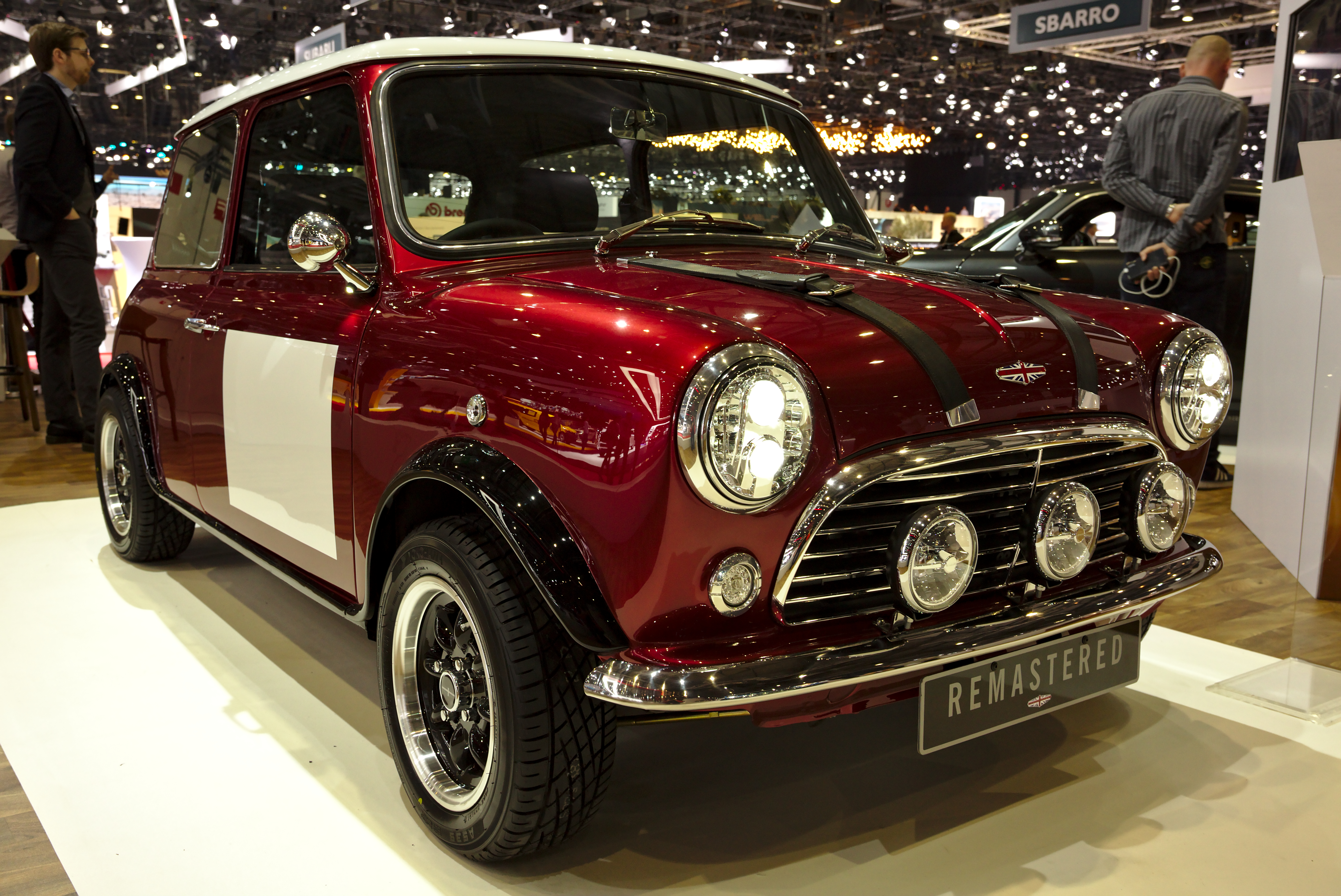 David Brown Mini Remastered at Geneva Motorshow 2018